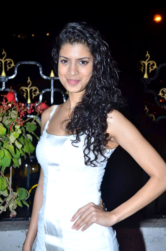 Tena desae